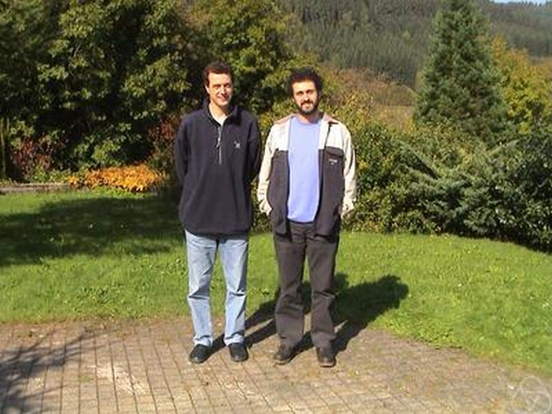 Gabriele Vezzosi (left), Bertrand Toën, Oberwolfach 2002